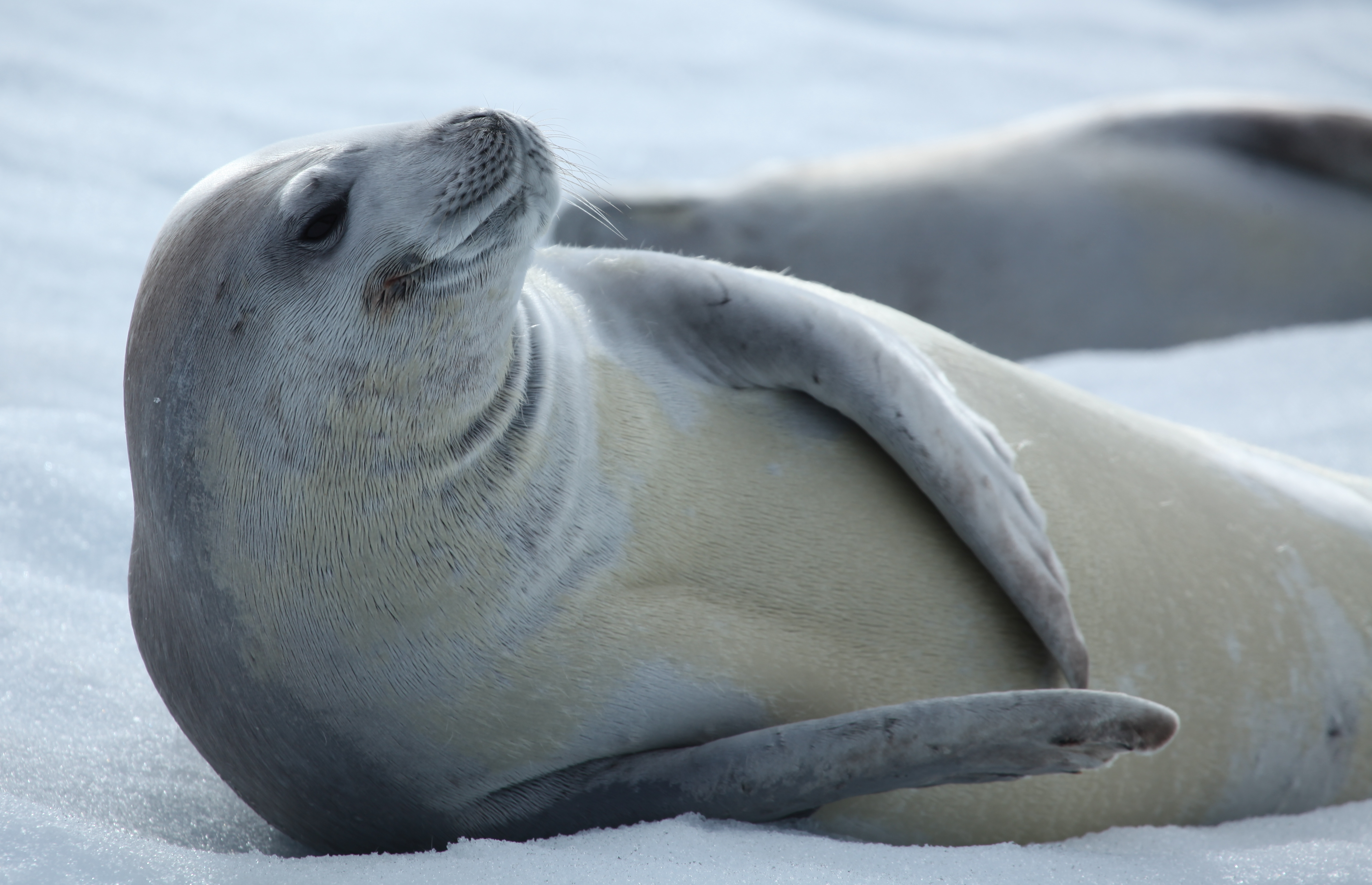 Crabeater Seal in Pléneau Bay, Antarctica